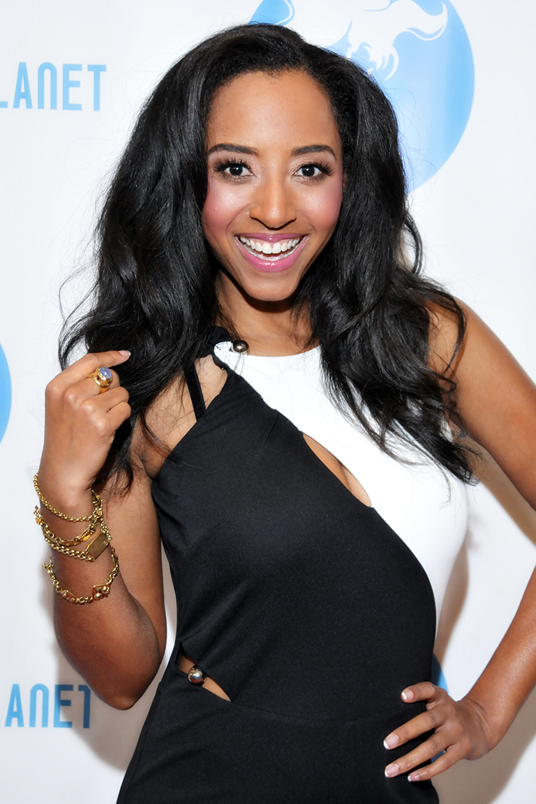 Neferteri Shepherd, Beverly Hills, California on May 6, 2016 - Photo by Glenn Francis of